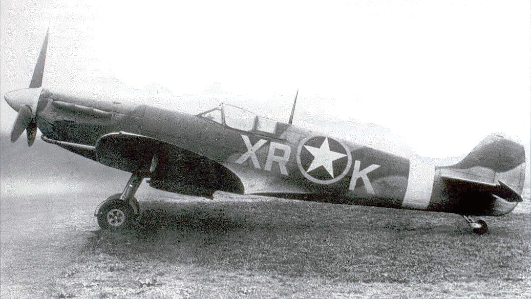 Supermarine Spitfire Mk Vb of the American 334th Fighter Squadron. This aircraft was assigned to Steve Pisanos, who had previously flown it under British colours before as part of 71 Squadron in the RAF, one of the Eagle Squadrons. The serial of the aircraft is EN783. The photo has evidently been altered (probably censored) as the lower nose air intake has disappeared.